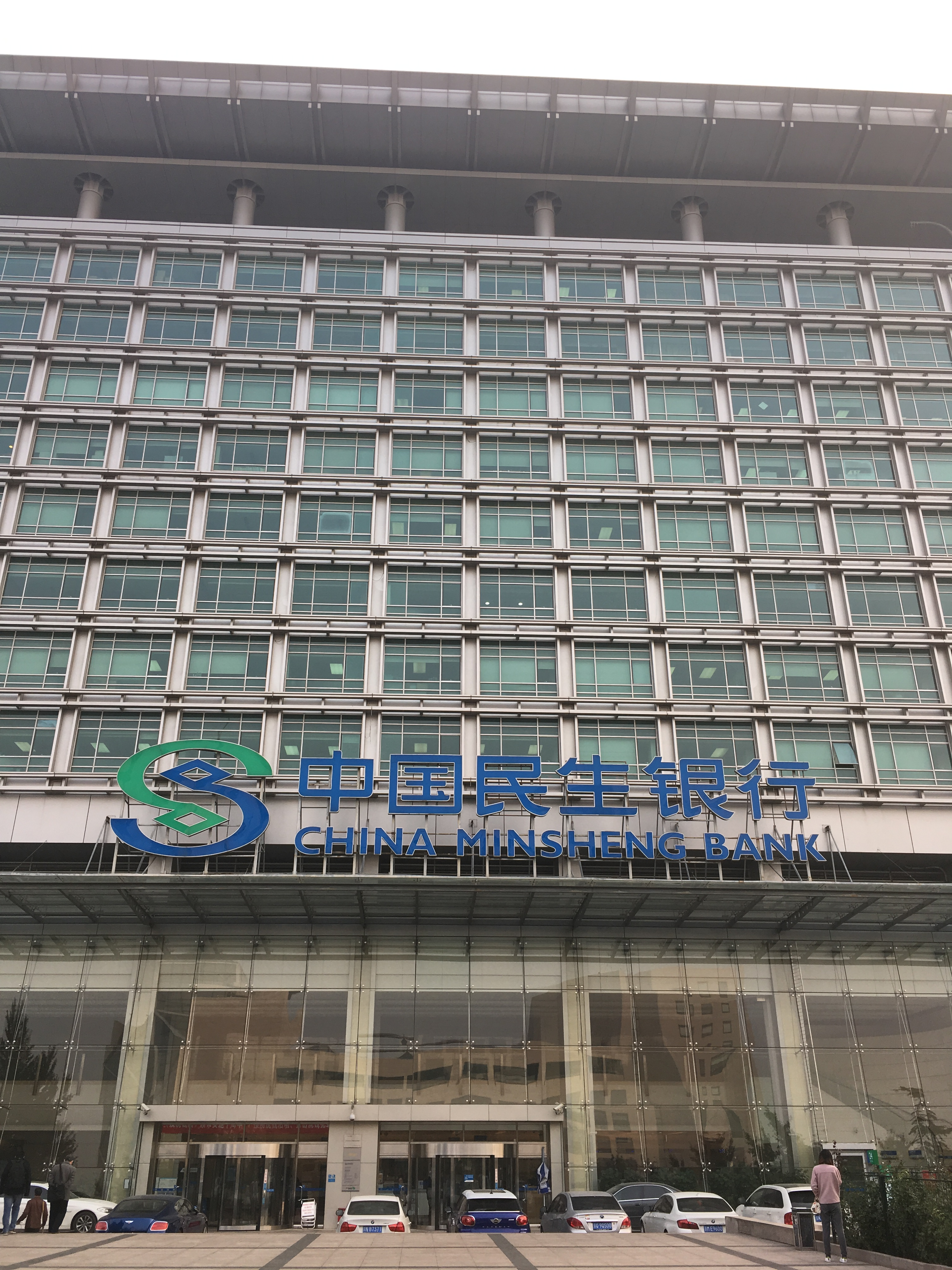 The Headquarter of China Minsheng Bank in Beijing.